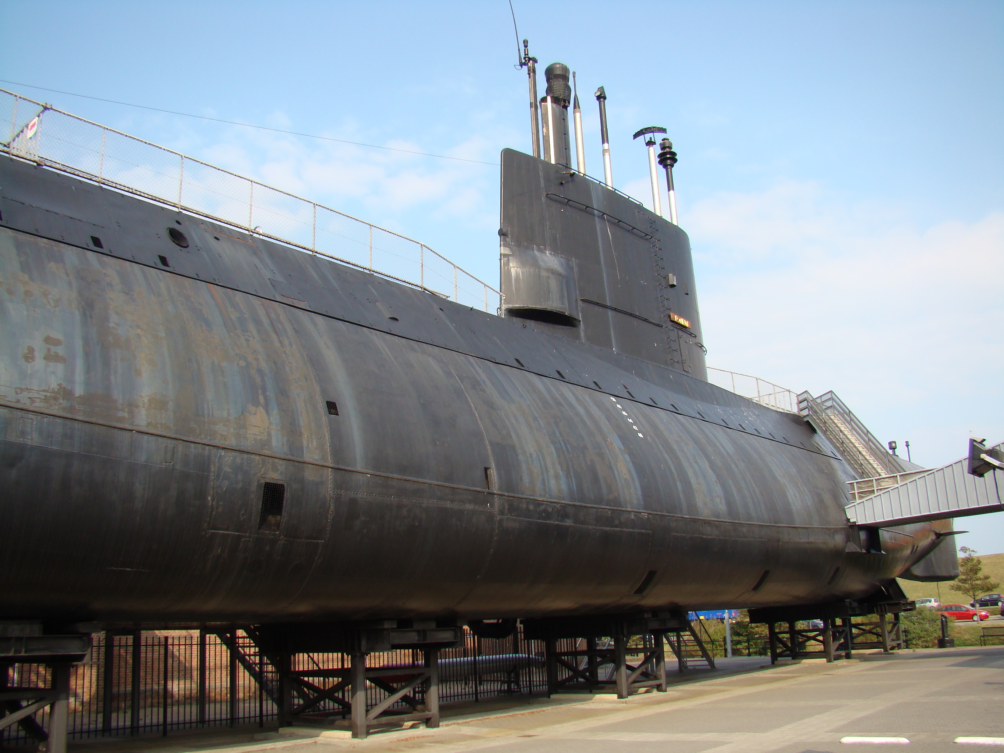 Submarine Hr. Ms. Tonijn at Den Helder (Netherlands)